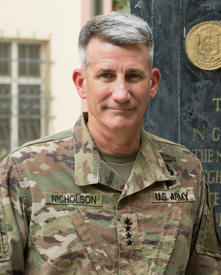 U.S. Army Gen. John W. Nicholson, Commander of the NATO Resolute Support Mission and U.S. Forces–Afghanistan, poses for a photo with U.S. Marine Corps Gen. Joseph F. Dunford, Jr., chairman of the Joint Chiefs of Staff, in front of a memorial outside the Resolute Support Mission headquarters in Kabul, Afghanistan, 26 June, 2017. Gen. Dunford traveled throughout the country meeting with U.S., Coalition, and Afghan leaders. (DoD Photo by U.S. Army Sgt. James K. McCann)Cropped only to show Gen. John W. Nicholson.